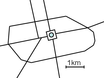 Map of Masar-e Sharif